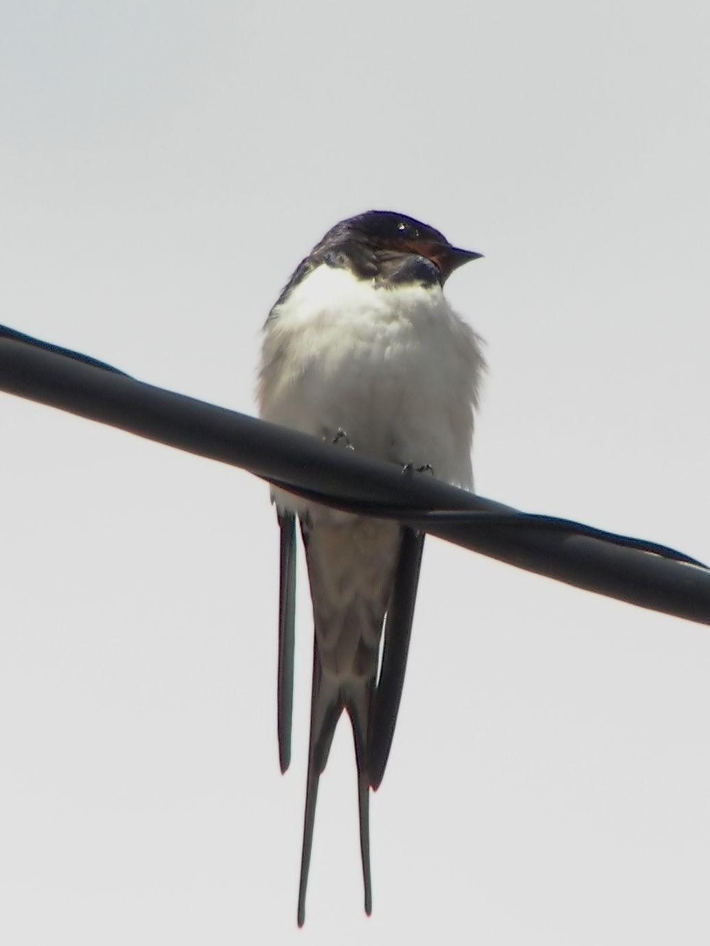 Saw near a park of Japan.